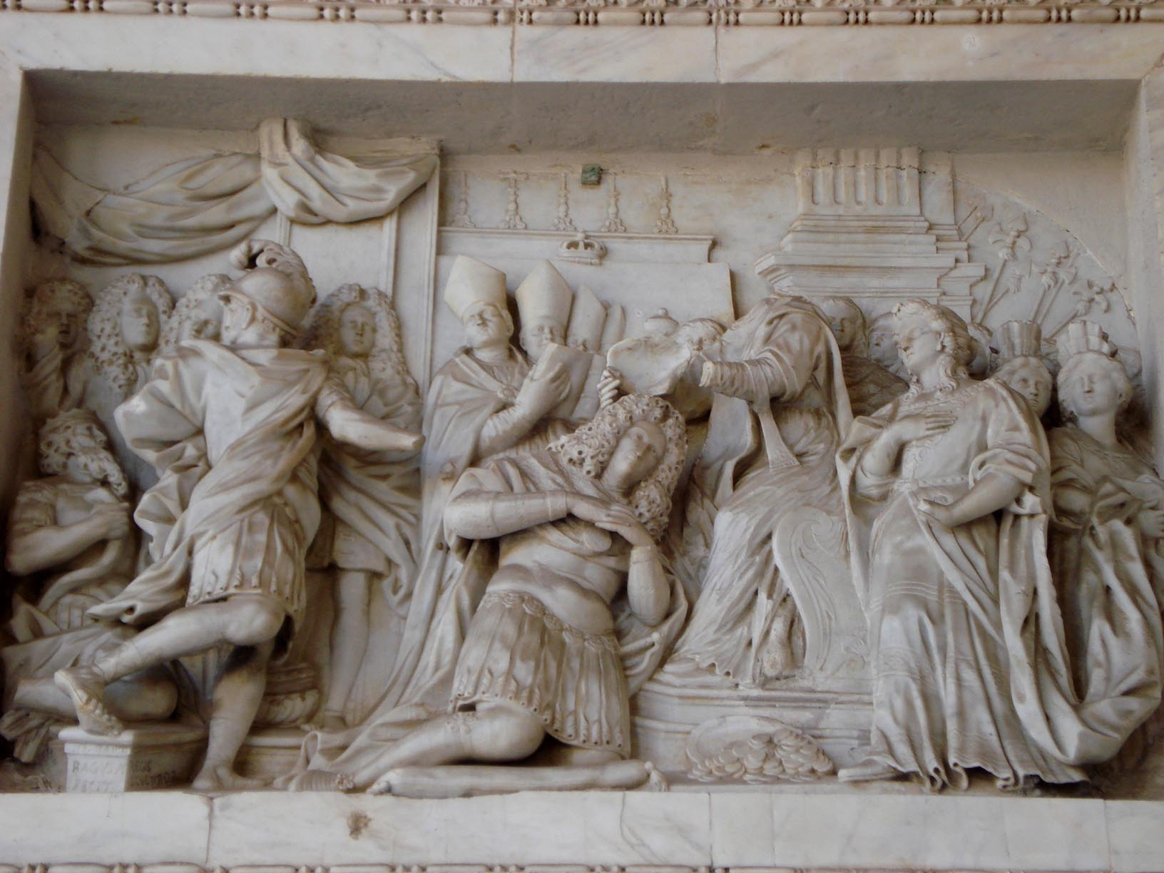 Vittorio Amedeo di Savoia's coronation in Palermo. relief beneath the southern porch of the cathedral.